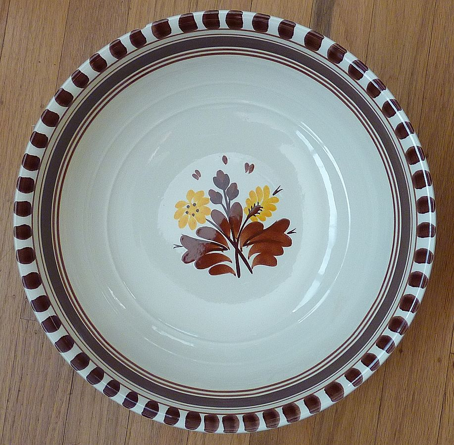 Date of mfr not known, but certainly before 1952.